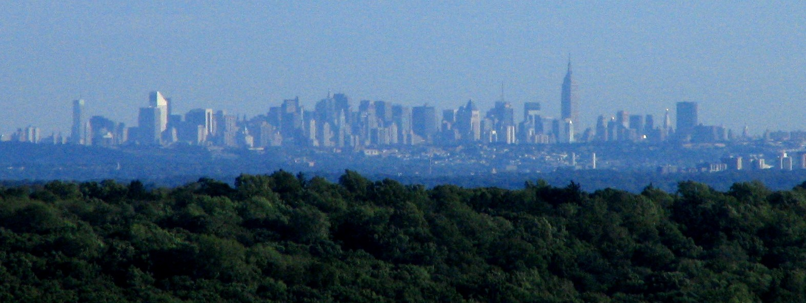 The Midtown Manhattan skyline as seen from Nordkop Mountain in Suffern, New York, 30 miles northwest.